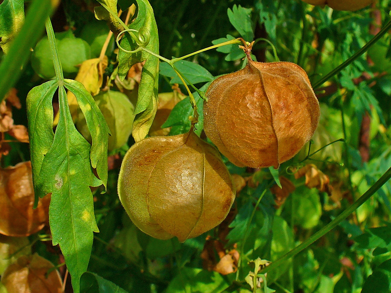 Cardiospermum halicacabum, Sapindaceae, Balloonvine, ripe fruits (diam. about 5 - 6 cm); Stutensee, Germany. The blooming plants are used in homeopathy as remedy: Cardiospermum (Cardi-h.)